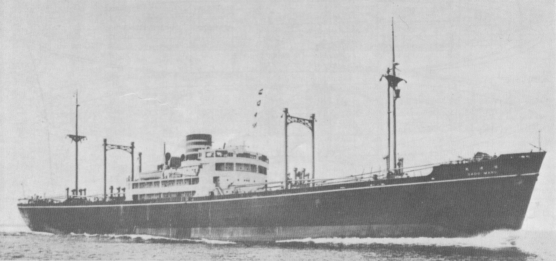 NYK Line "Sado Maru"(1939)